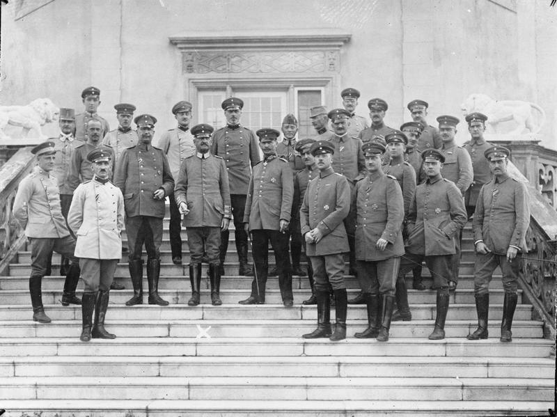 Geiser Theodore (mons) Collection General von Linsingen and Staff. Army and Army Group Commander on Russian Front.